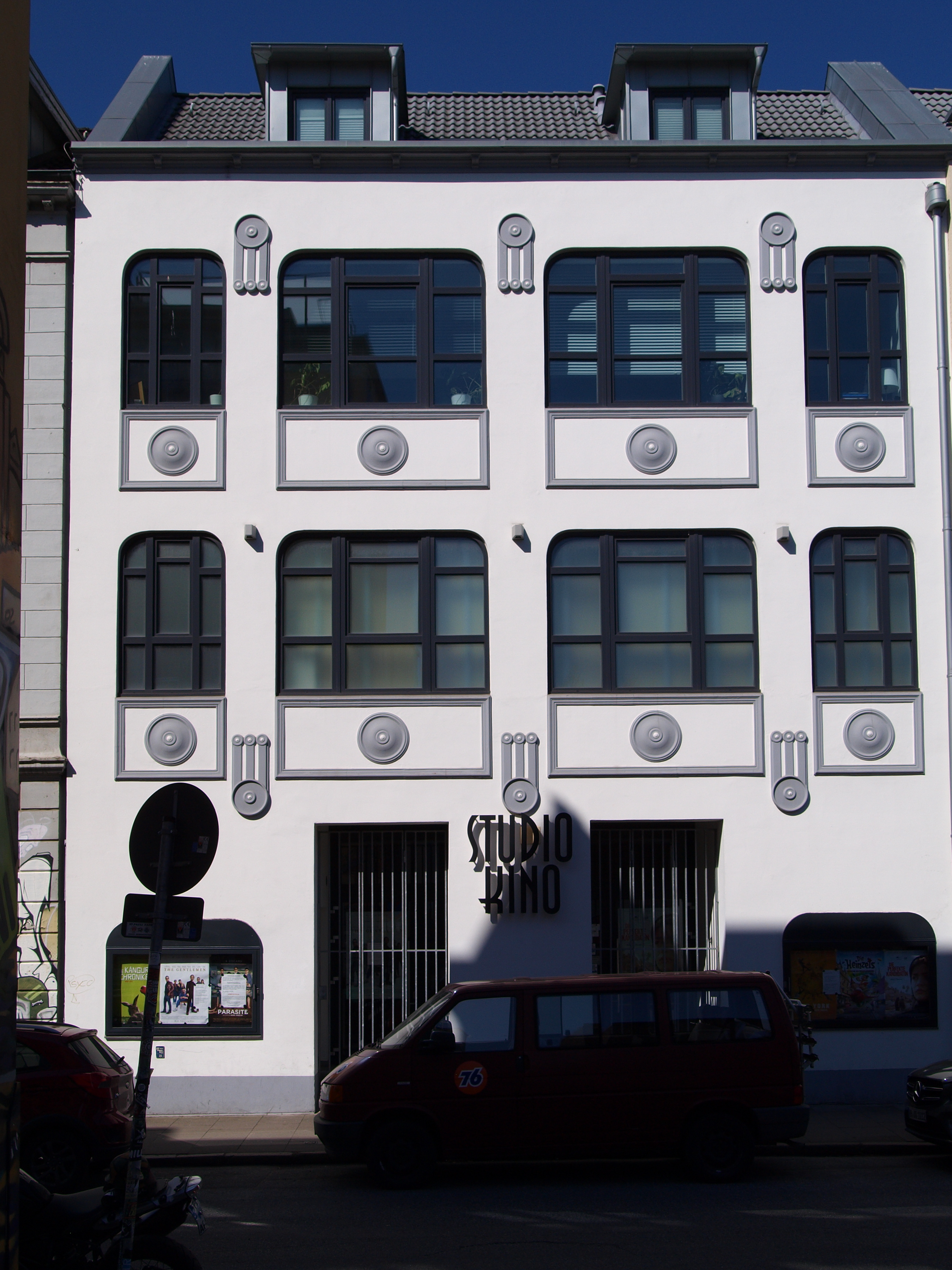 Cinema Studio Kino. Bernstorffstraße 93, Hamburg, Germany.